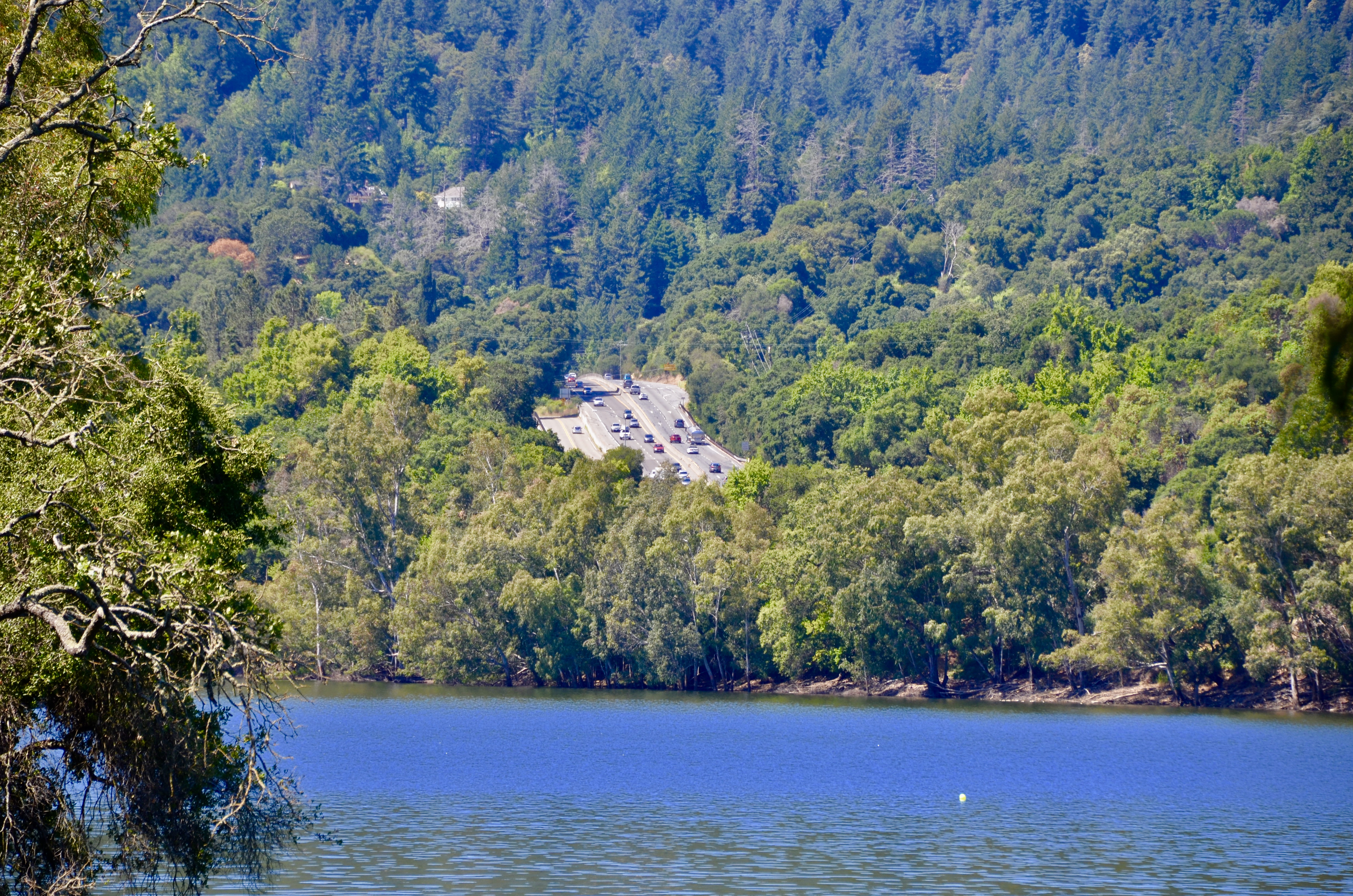 fwy 17